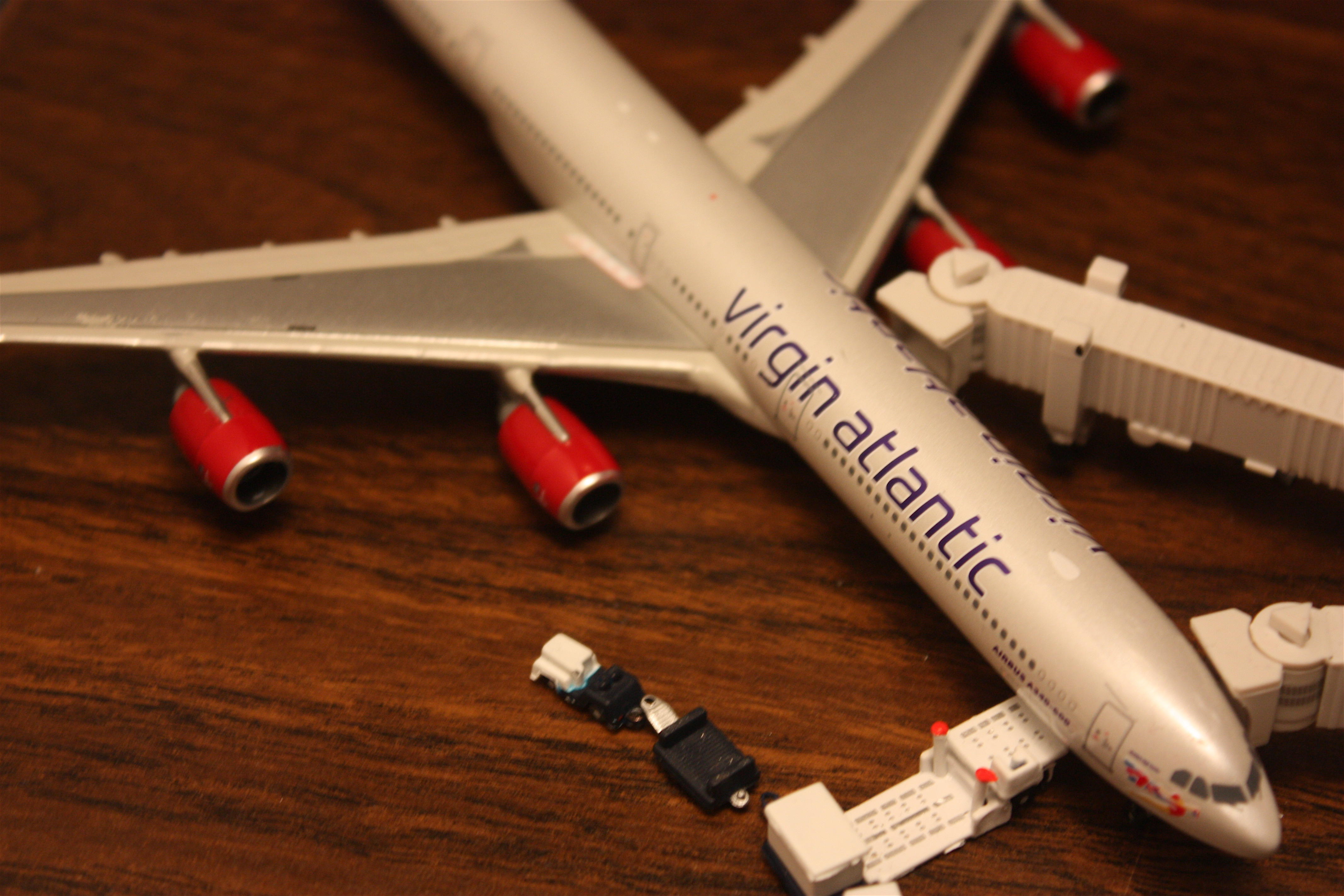 Gemini Jets 1:400 scale model Virgin Atlantic A340-600.